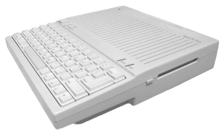 Isometric side view of the Apple IIc Plus personal computer, circa 1988.